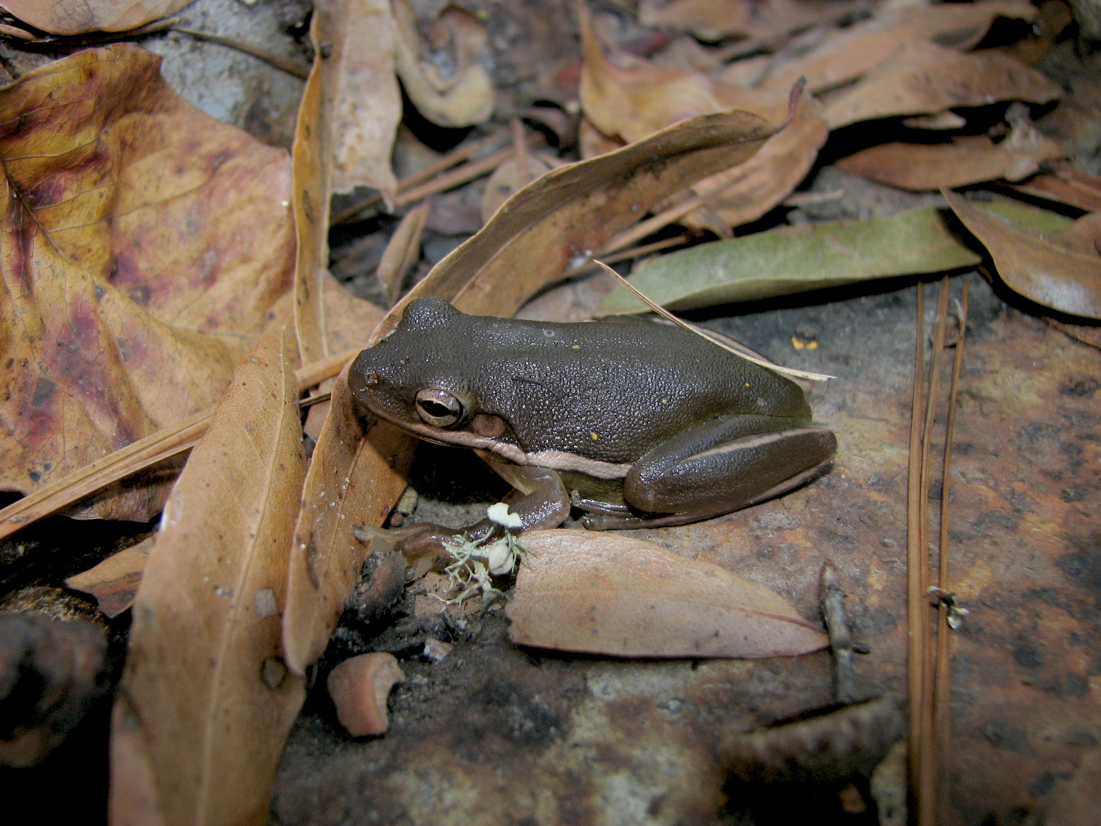 American green tree frog - Hyla cinerea. Taken by Gregory Badon on December 23, 2007. The frog was found snuggling under an old tractor-seat cushion. The temperature was about 45 °F (7 °C) and sky was overcast. Job (talk) 04:44, 25 December 2007 (UTC)